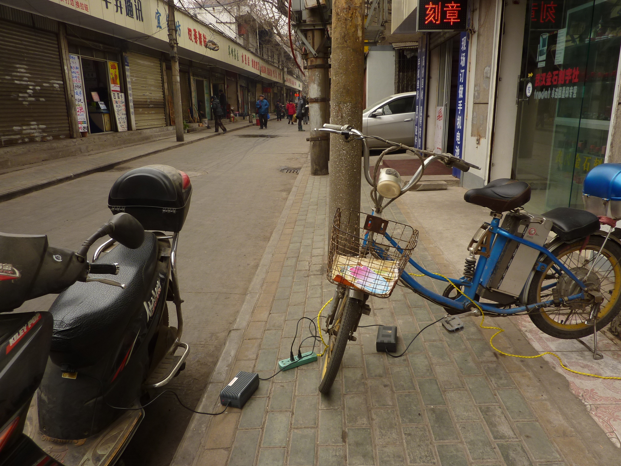 In Wuchang's Garment District - several blocks around Minzhu Lu (Democracy St), NE of the Yellow Crane Tower.